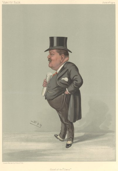 Caricature of Sir CW Cayzer. Caption read "Chief of the 'Clans'".